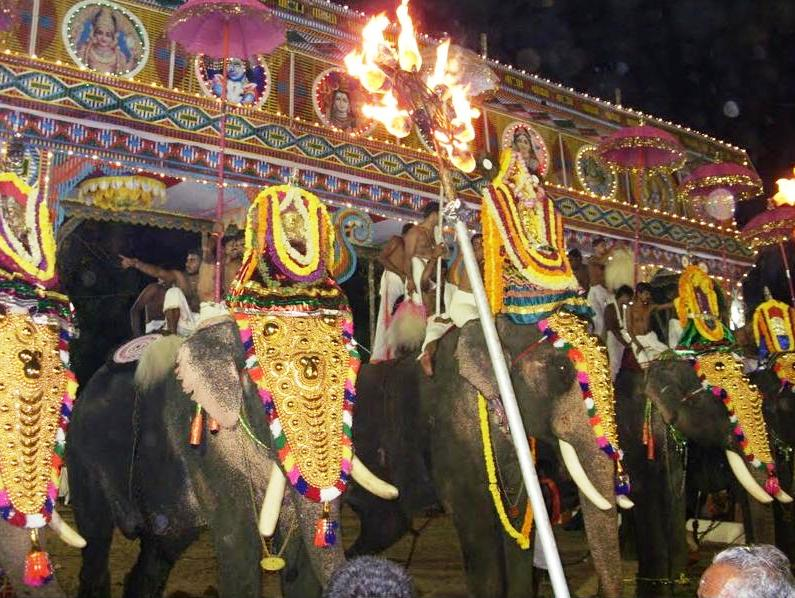 Nalpathenneeswaram Ezhunallathu